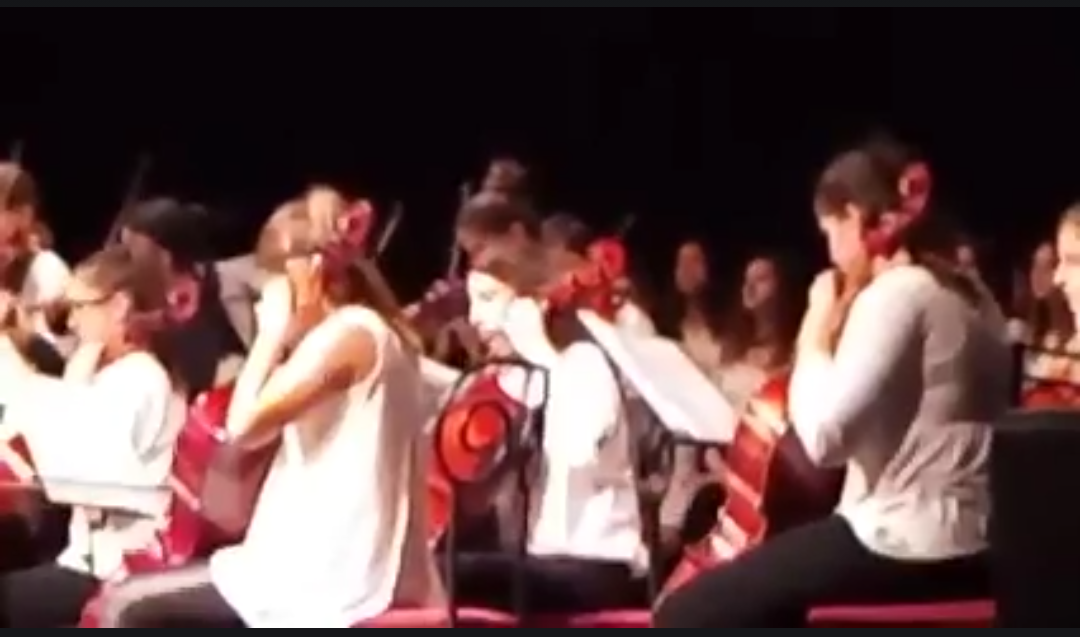 orchestra of strings Српски (ћирилица): оркестар гудача